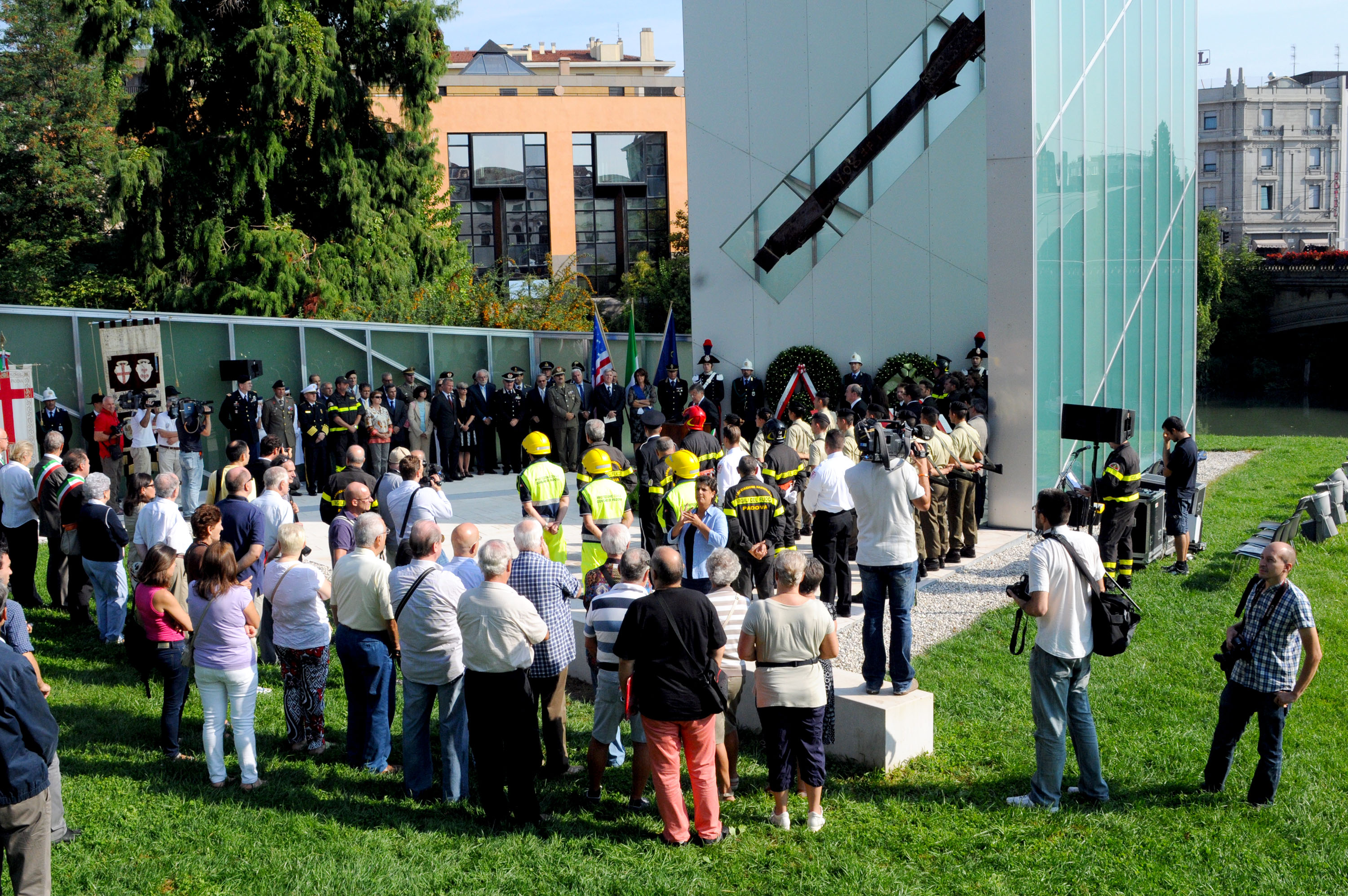 U.S. Army Col. Kristin Ellis and Italian Army Lt. Col. Francesco Patalano represented Caserma Ederle at a 9-11 commemorative ceremony in Padova, Italy. Ellis is the director of U.S. Army Africa’s G-6, Information Technology division and Patalono is USARAF’s Deputy of G-4, Logistics. Ellis and Patalano joined more than 400 ceremony spectators and participants held at The Memoria e Luce, a memorial for victims of the Sept. 11, 2001 attacks on New York City. Among the dignitaries attending the ceremony were Barbara Degani, president of Padova province and Kyle Scott, U.S. counsel general in Milan, Italy. Memoria e Luce features a twisted steel beam salvaged from the wreckage of the World Trade Center that was donated to the Regione de Venetto. Designed by Daniel Libeskind, the memorial represents “The Light of Liberty shining through the Book of History." According to the official Website, the book is open to the memory of the heroes of Sept. 11, with the left-hand page holding a dramatic beam salvaged from the World Trade Center attack. The memorial was completed in September 2005 in collaboration with Permasteelisa, a global design, engineering and construction corporation. (U.S. Army Africa photo by Rich Bartell) To learn more about U.S. Army Africa visit our official website at Official Twitter Feed: Official Vimeo video channel: Join the U.S. Army Africa conversation on Facebook